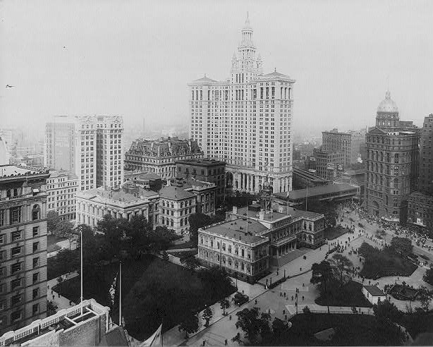 Bird's eye view of New York City Hall.